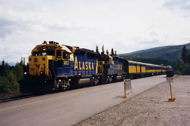 Photo of Alaska Railroad at Denali station, taken July 1998 by User:Stan Shebs.